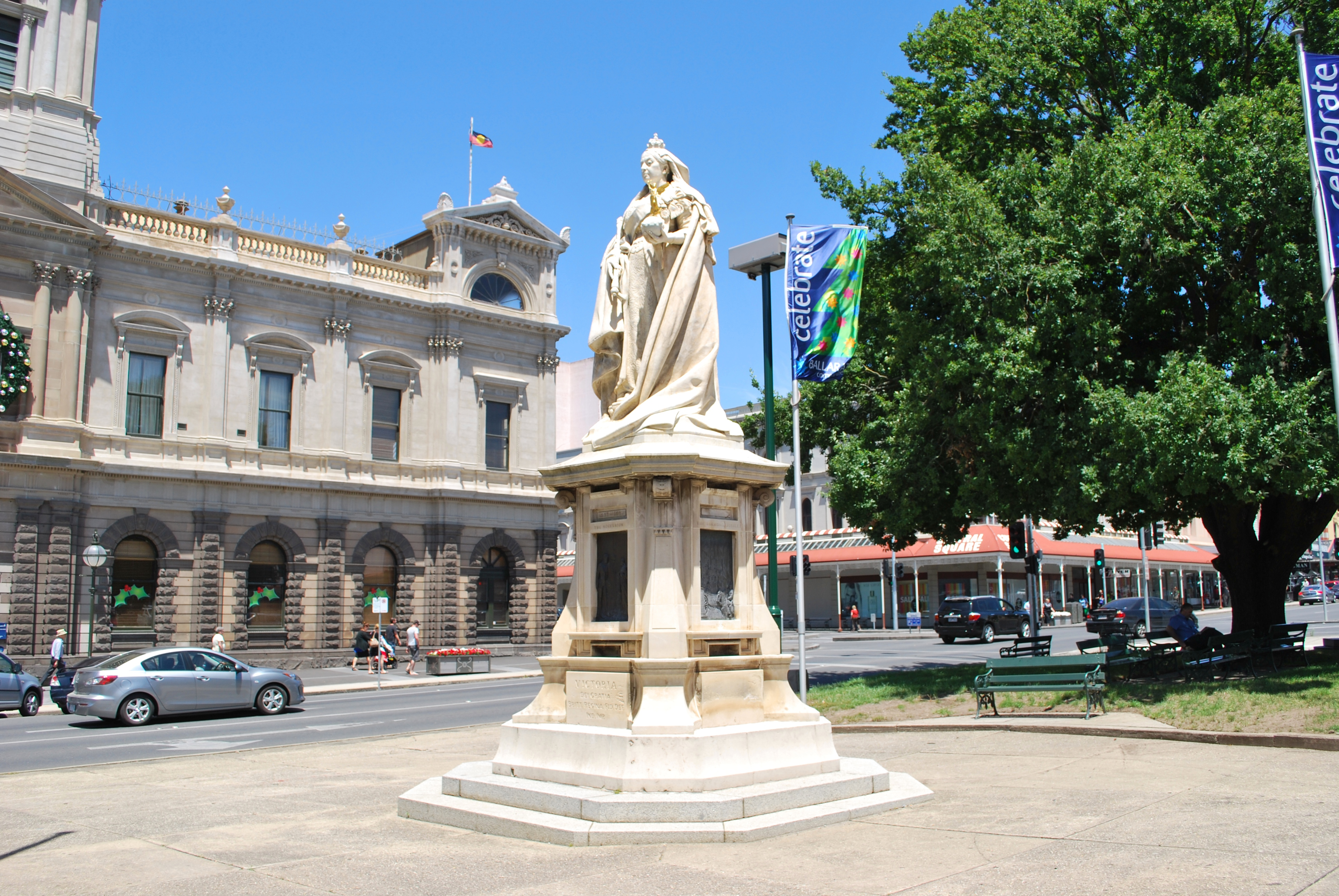 Statue of Victoria of the United Kingdom in Ballarat, Australia